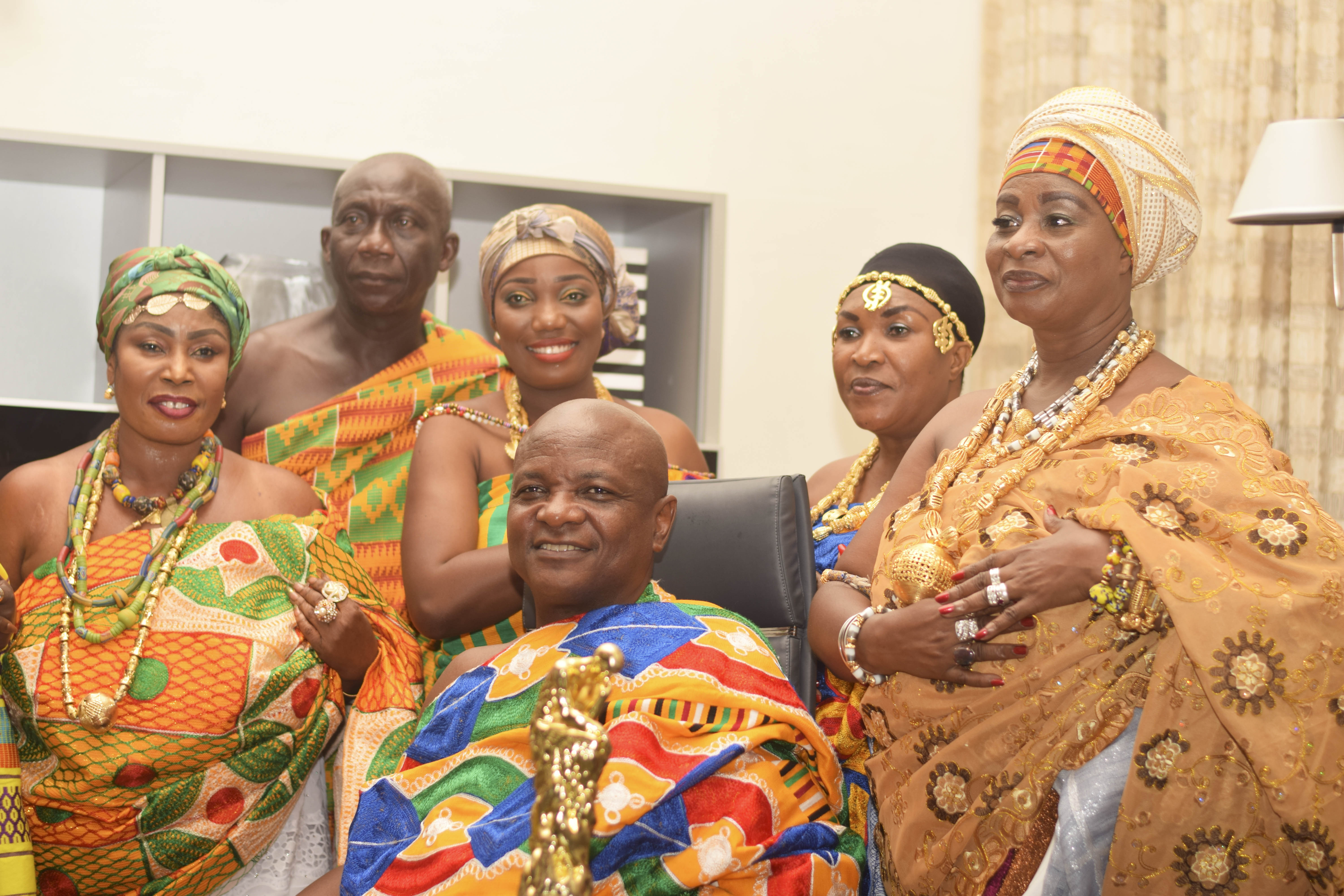 Togbe Afede XIV – Man of the Year 2018